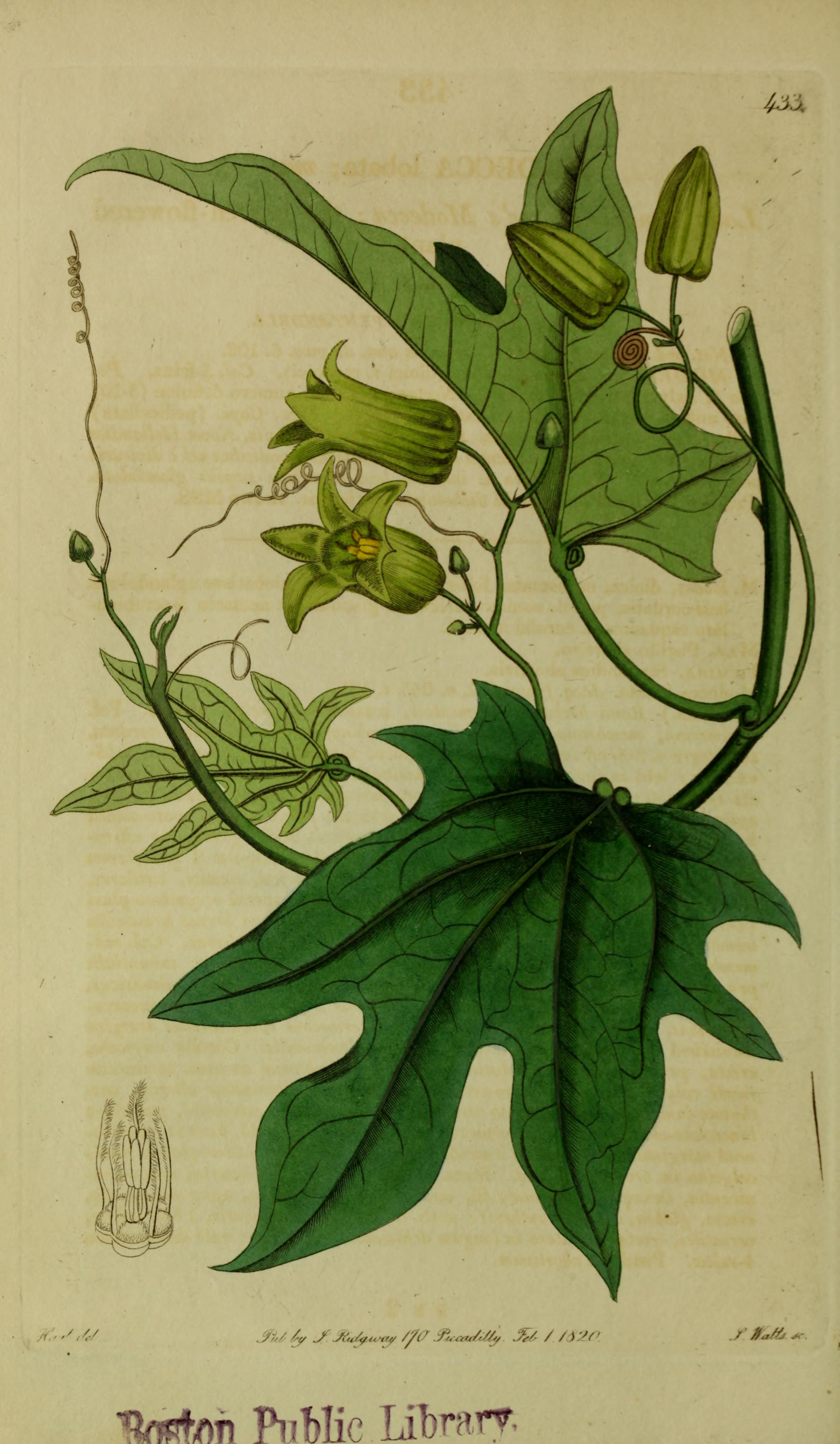 Title: The Botanical register consisting of coloured figures of Year: 1815 (1810s) Authors: Edwards, Sydenham, 1768-1819; Shrewsbury, John Talbot, Earl of, 1791-1852, former owner Subjects: Plants, Ornamental; Plant introduction; Botanical illustration; Botany; Floriculture; Botany Publisher: (London : s. n. ) Text Appearing Before Image: Modecca lobata Jacq. is a synonym of Adenia lobata (Jacq.) Engl. ' Text Appearing After Image: '